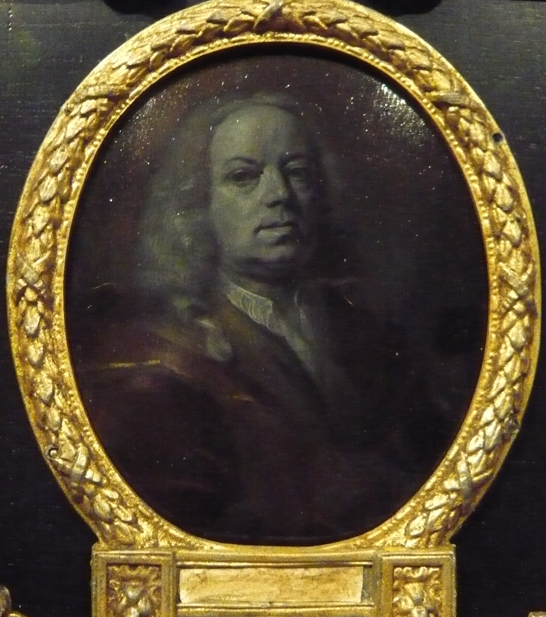 Frans Greenwood by Aert Schouman Portrait mounted by Arnoud van Halen for his Pan Poëticon Batavum, Collection 18th century paintings, Rijksmuseum Amsterdam